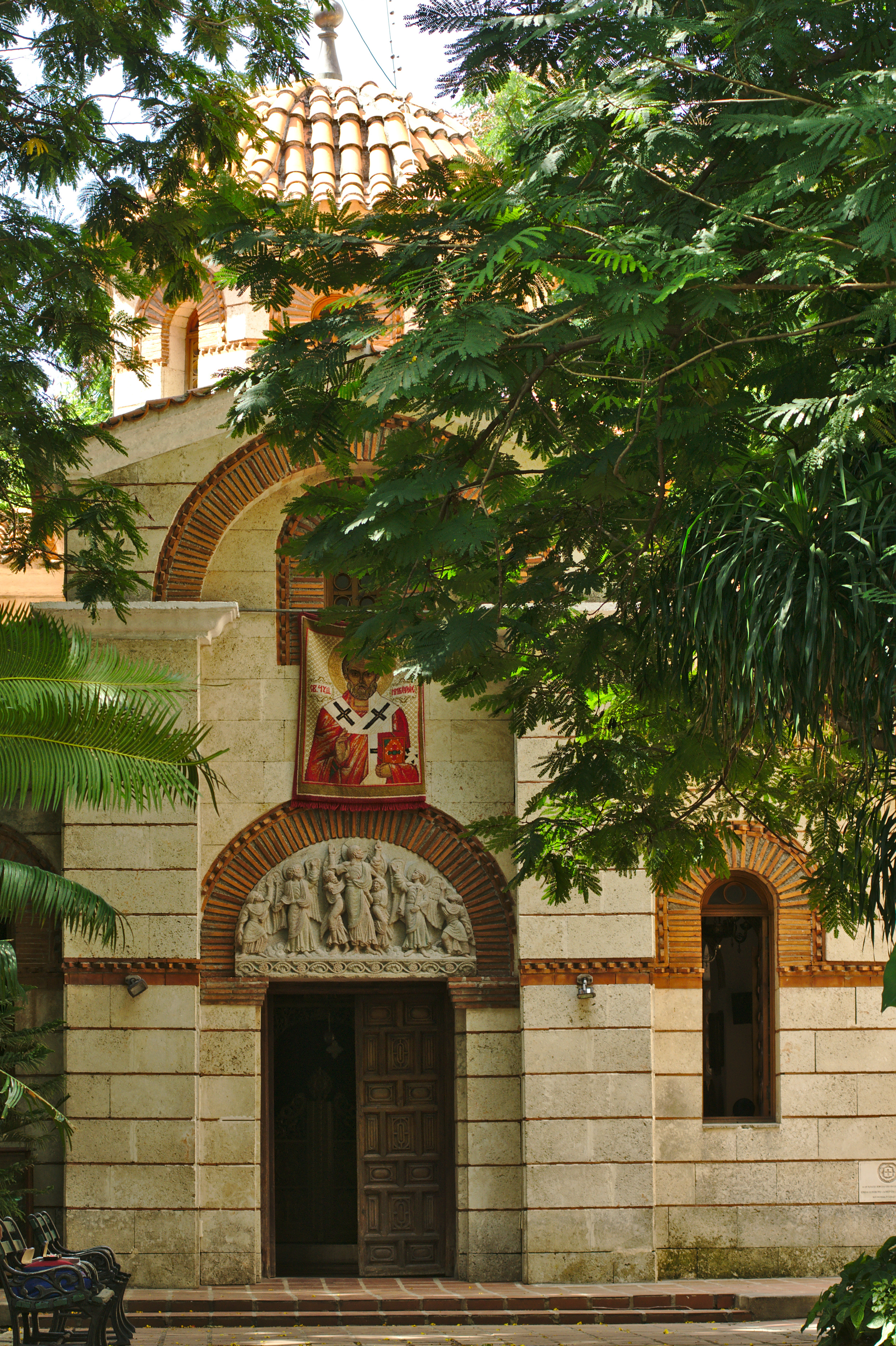 St Nikolaos Greek Orthodox Church in Havana, Cuba.